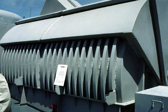 The side view of Terne.